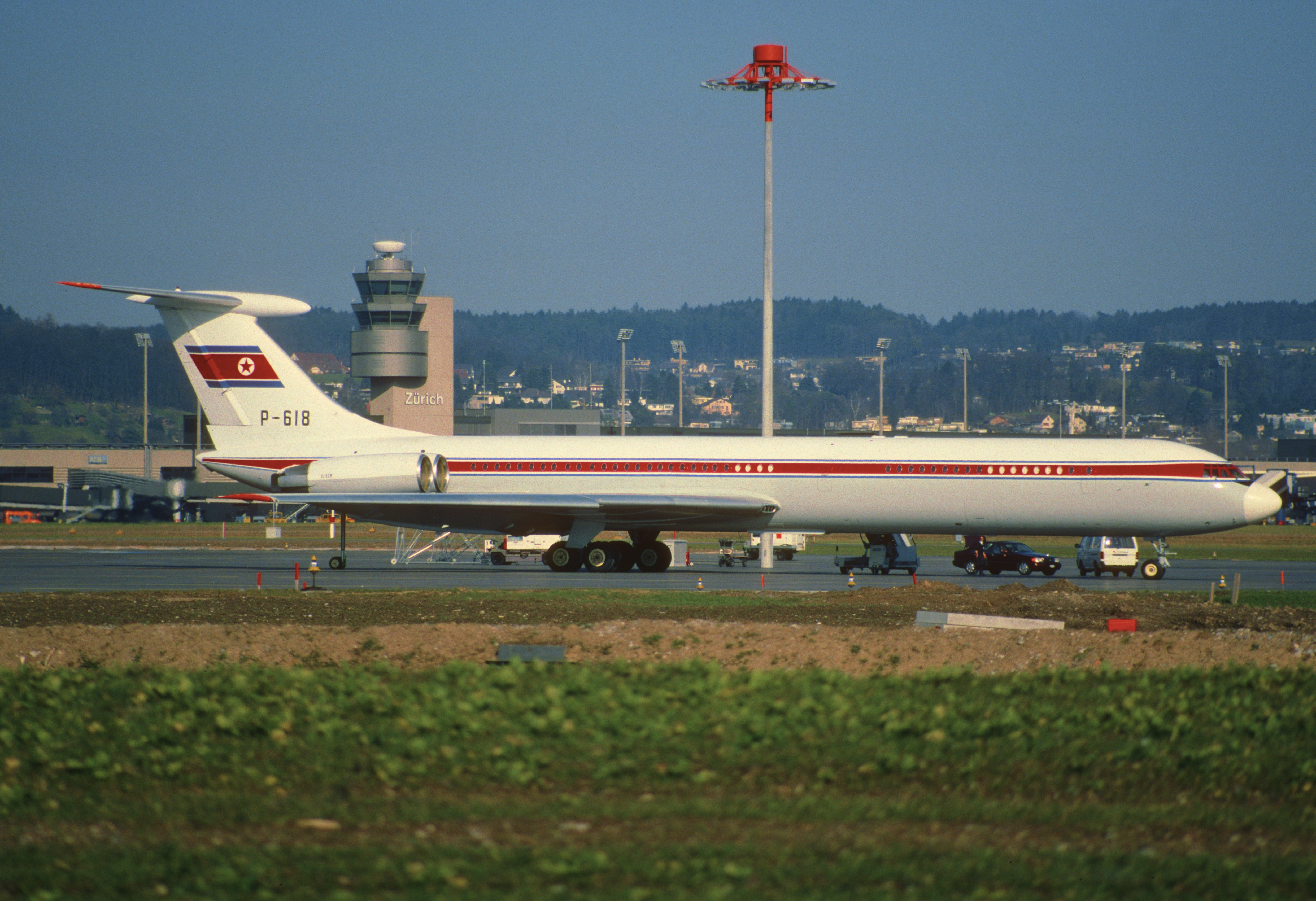 This North Korean Ilyushin was one of Zürich's aviation highlights of the decade of the 'nasty noughties' ...